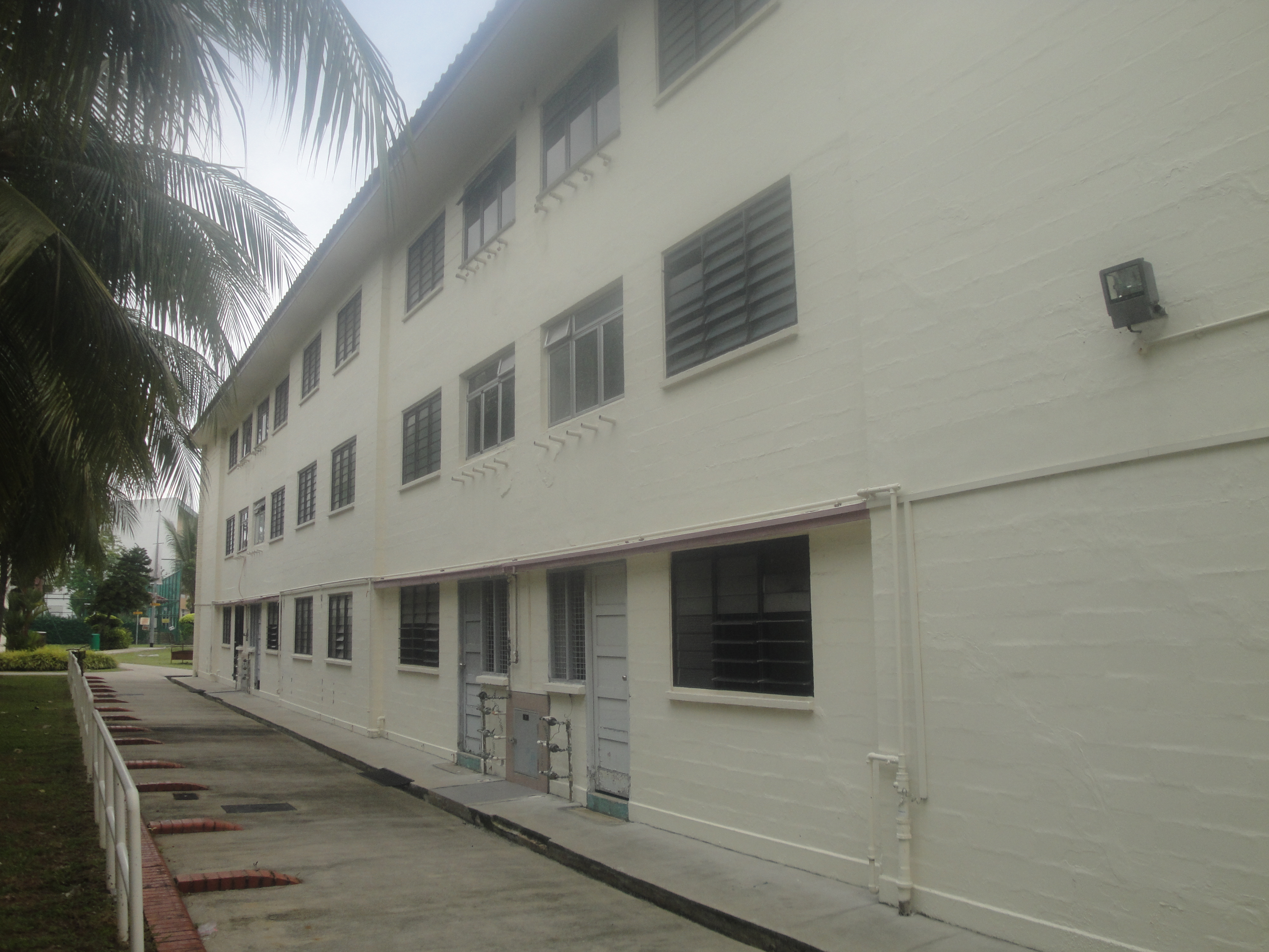 Three storey blocks in Dakota